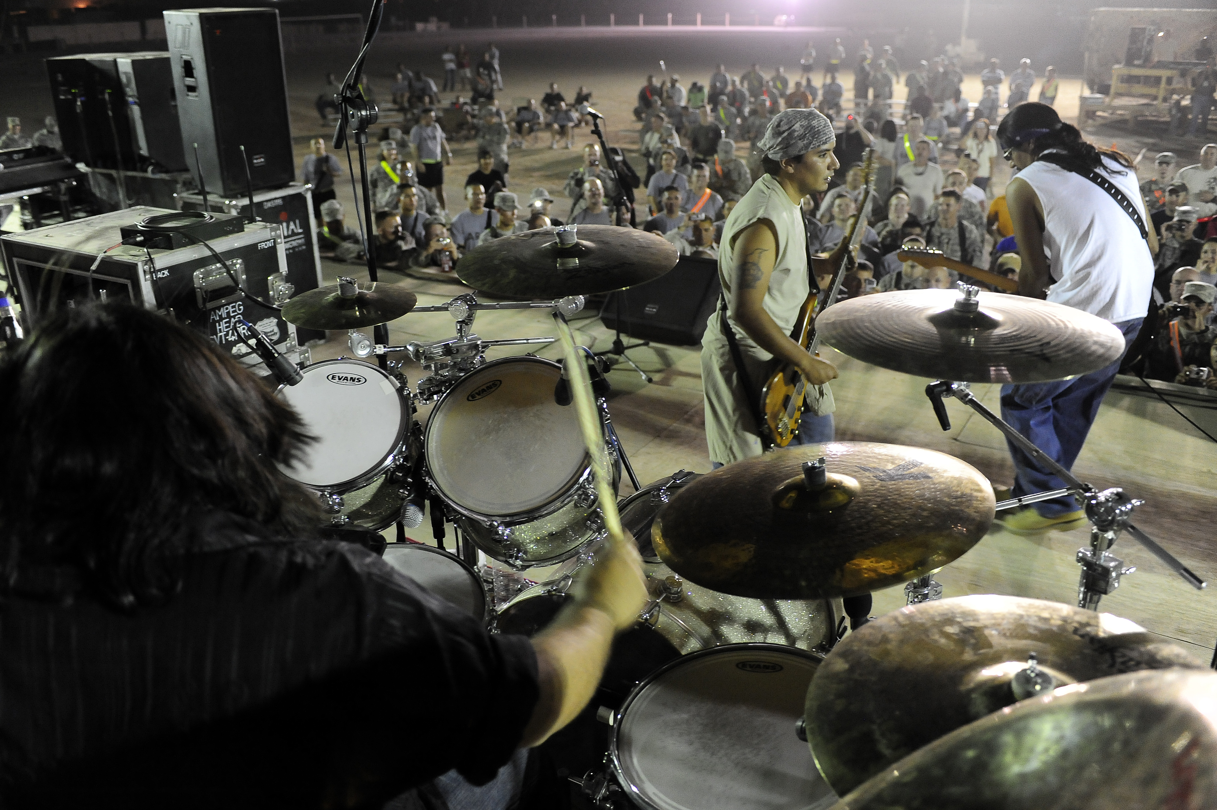 A mixed crowd of U.S. Soldiers, Airmen, Sailors and civilians look to the stage during a music concert featuring the Grammy Award winning Rock-N-Roll trio "Los Lonely Boys" at Contingency Operating Base Speicher, in northern Iraq, Sept. 4. Unit: Joint Combat Camera Center Iraq